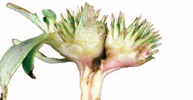 Gymnarrhena micrantha Desf.